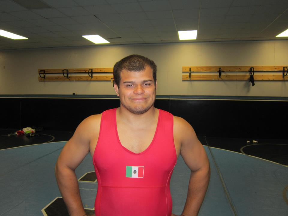 Jesse Ruiz Trayectory